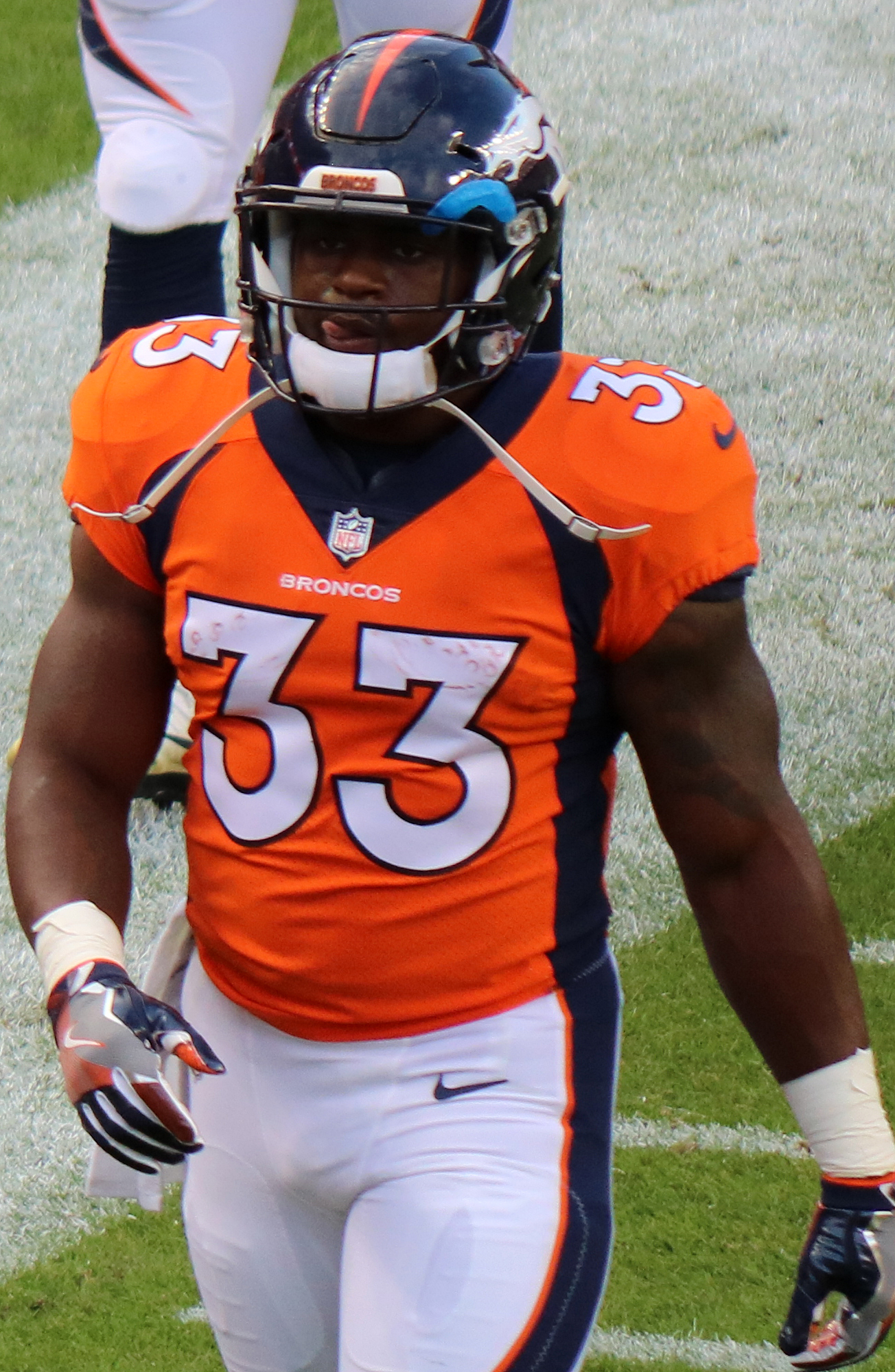 De'Angelo Henderson, a player on the National Football League.